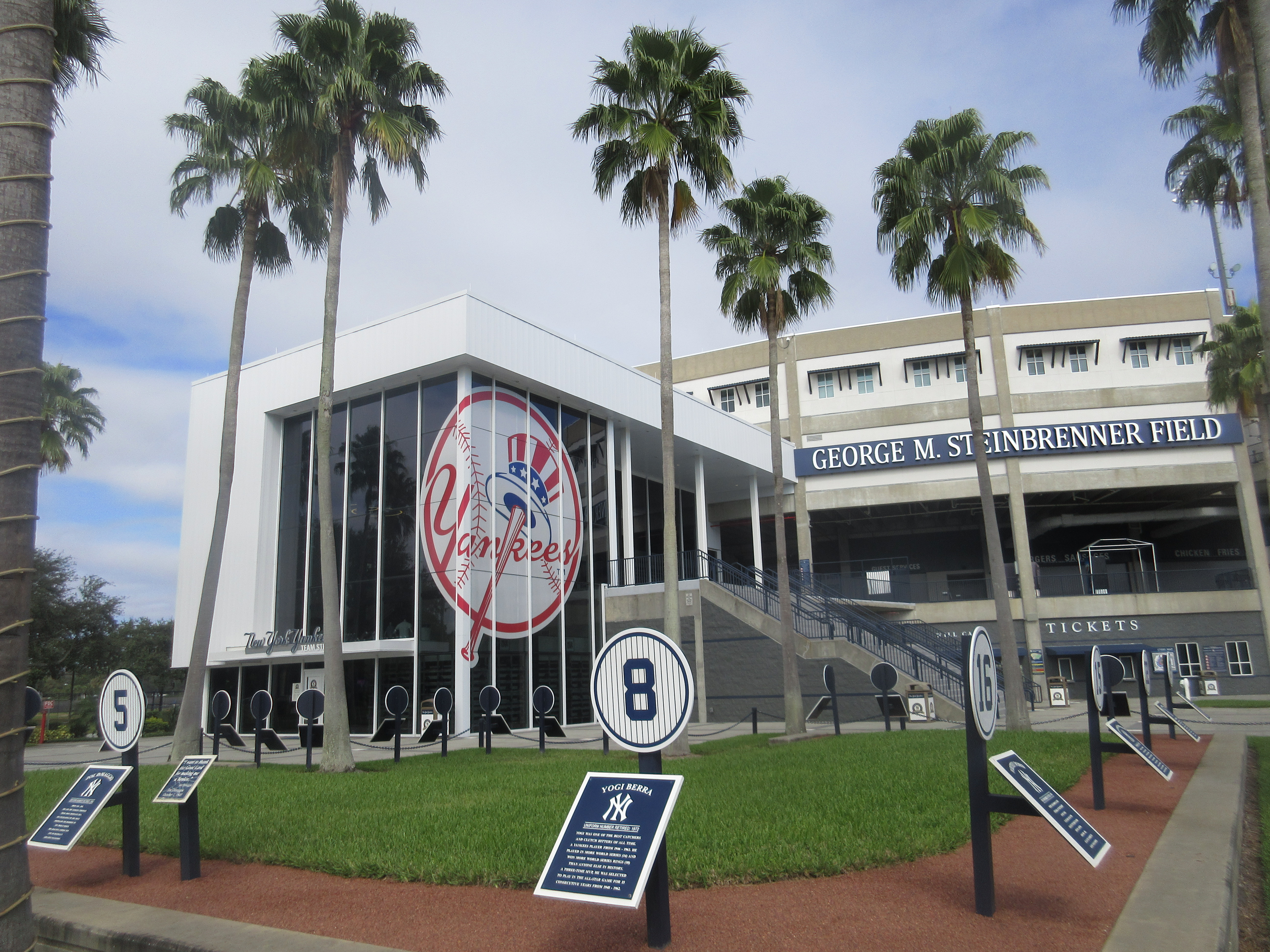 A photograph of the exterior of George M. Steinbrenner Field.